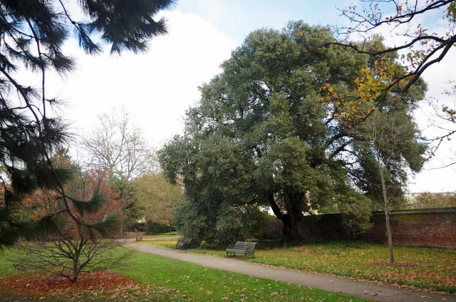 Holm Oak In Fullham Palace